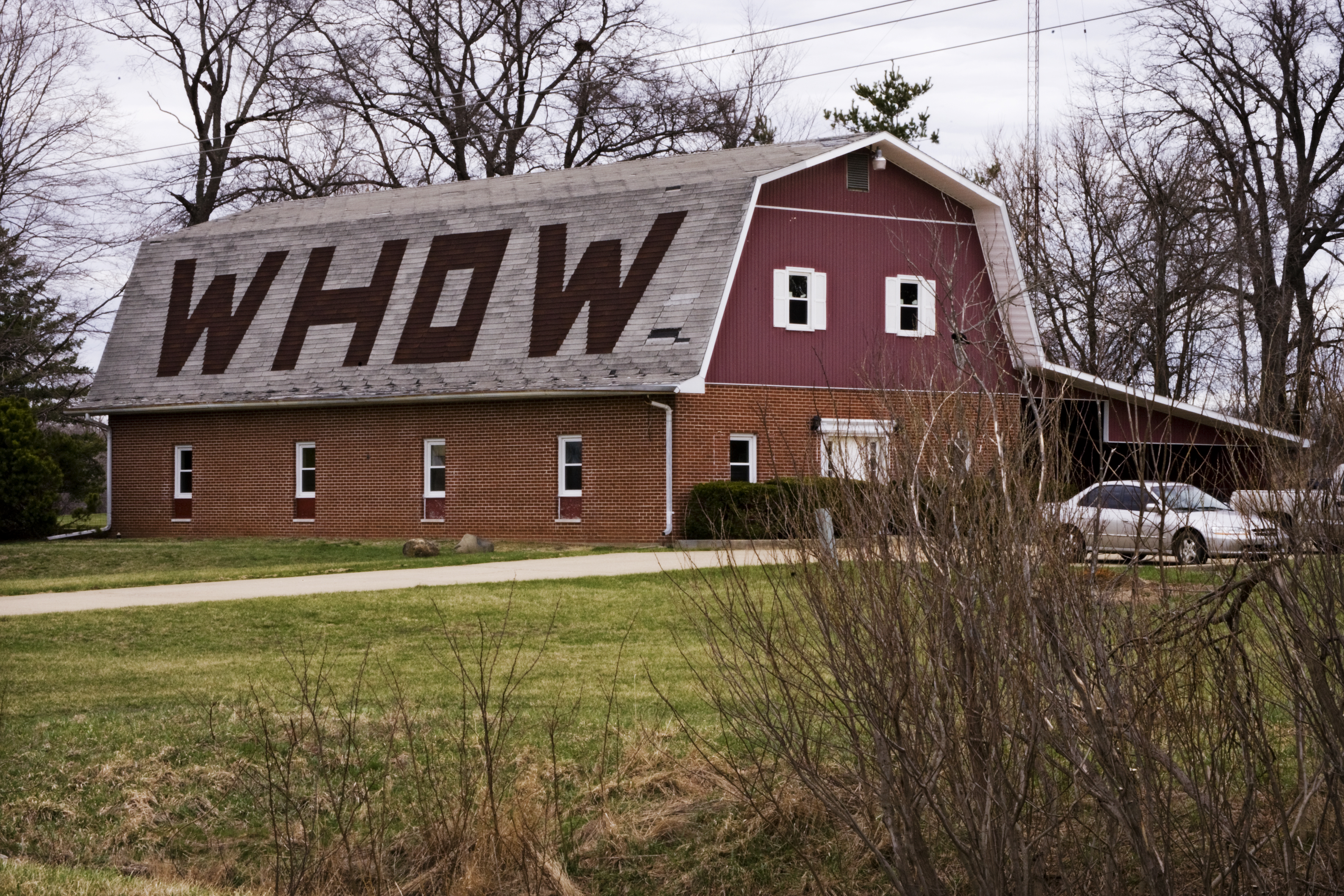 photograph of the WHOW building near Maroa, Illinois